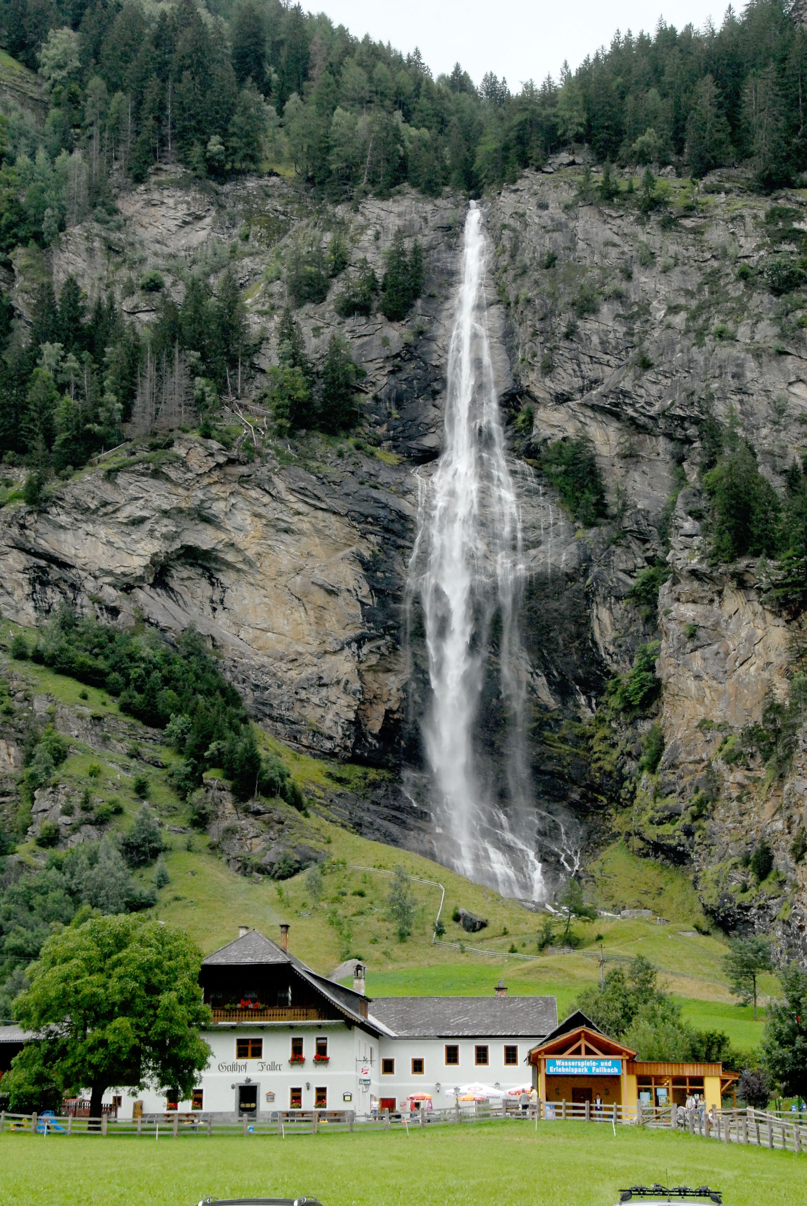 Higest waterfall of Carinthia, the “Fallbach” at Koschach in Malta, district Spittal on the Drau, Carinthia, Austria This media shows the natural monument in Carinthia with the ID Sp 33.